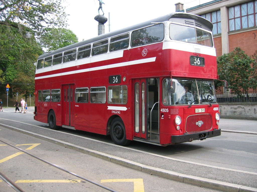 Storstockholms Lokaltrafik no. 4505, a Leyland Atlantean (littera H19) built 1967. Photo at Djurgården in Stockholm.